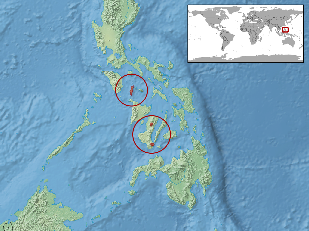 geographic distribution of Lepidodactylus christiani (Native: Philippines)